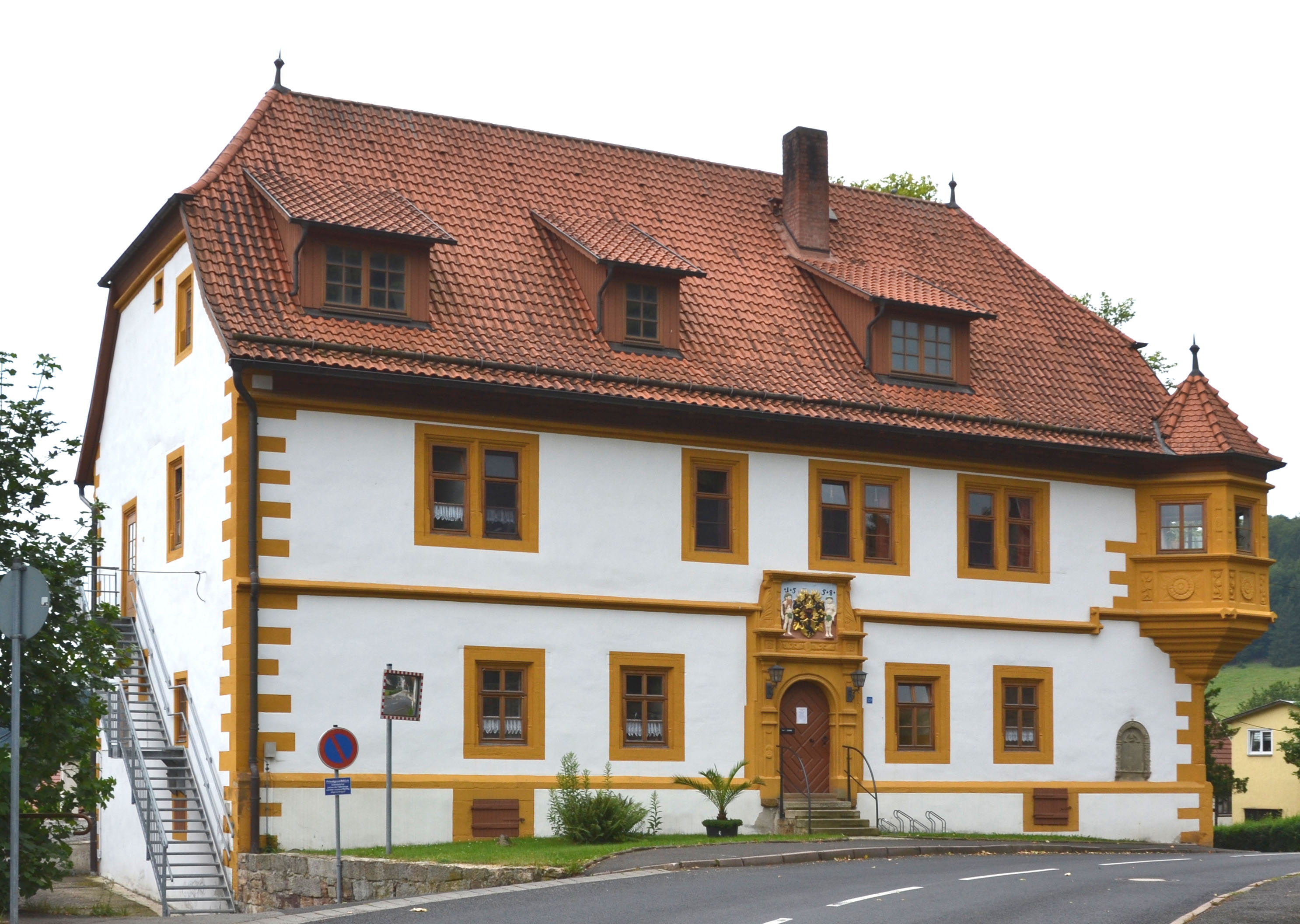 Neues Schloss or Unteres Schloss in Bibra